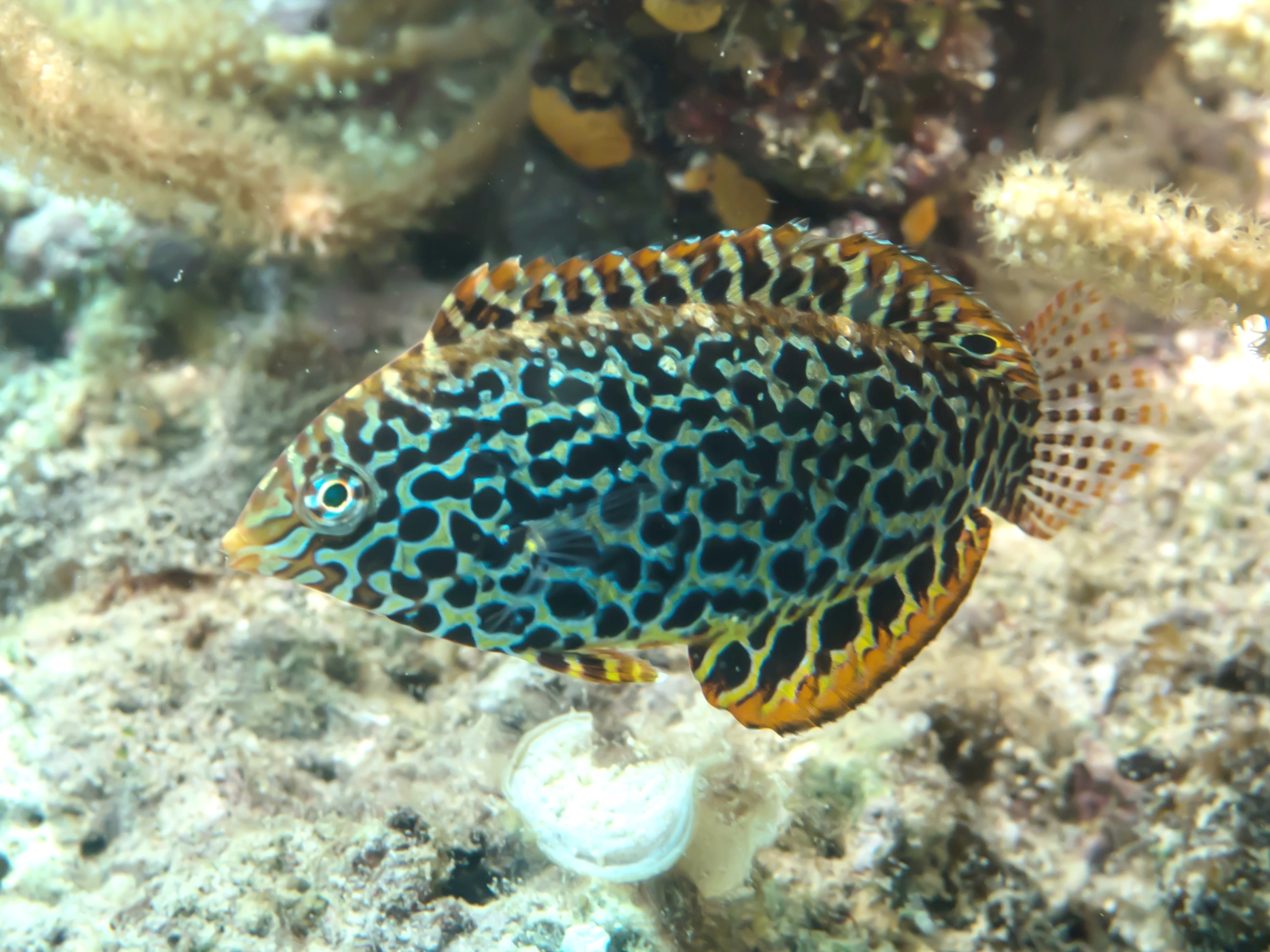 Romblon, Philippines - Leopard wrasse juvenile (Macropharyngodon meleagris)